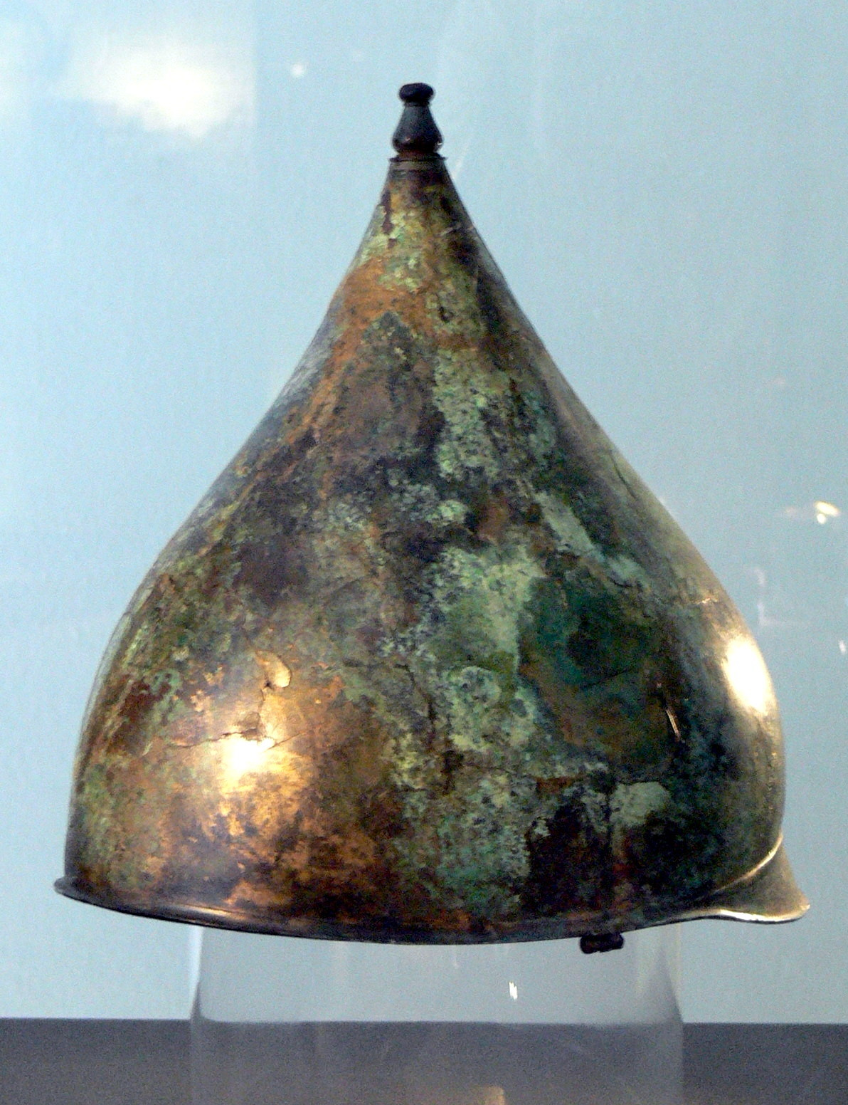 Celtic museum in Hallein ( Salzburg ). Bronze helmet ( 4th century BC ), from "Grave of a prince" 44 at Moserstein.